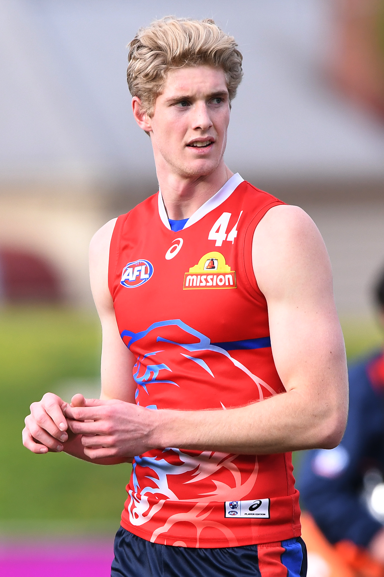 Tim English of the Western Bulldogs during Western Bulldogs training on 7 August 2018 at Whitten Oval in Melbourne, Victoria.